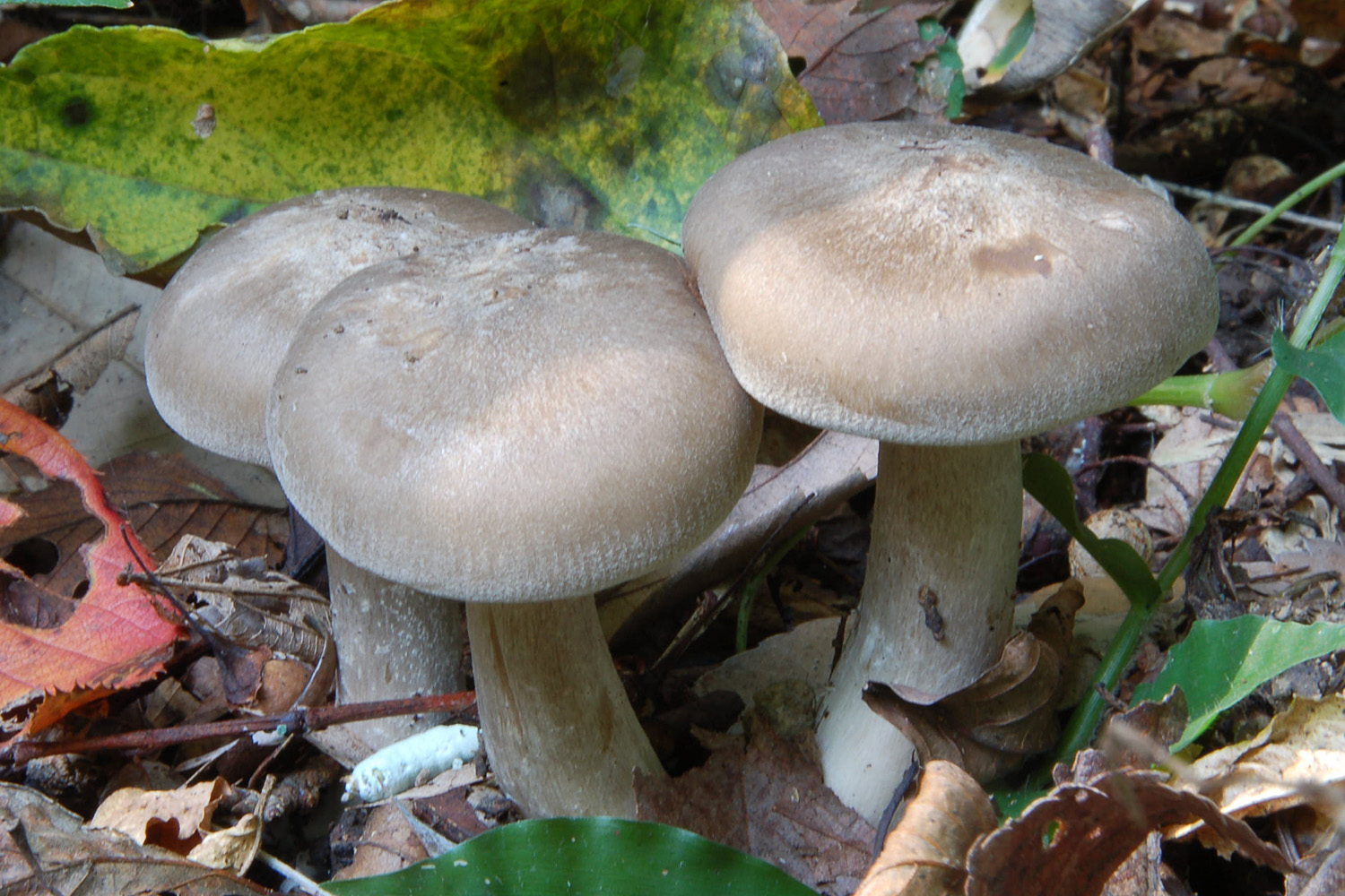 Lyophyllum decastes young fruit body in Saitama, Japan.